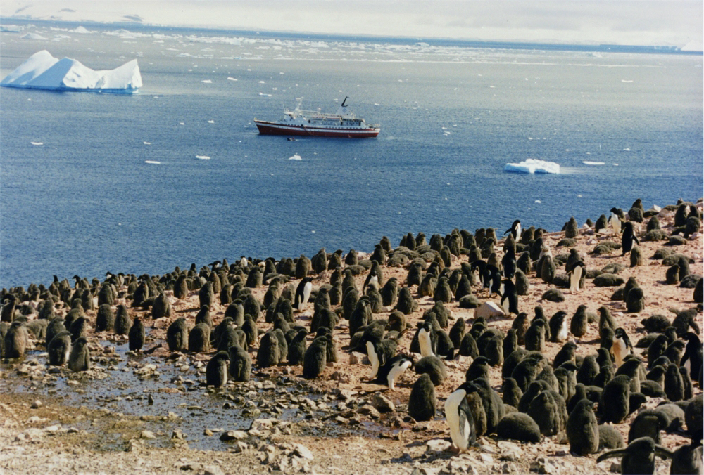 Adélie penguin chicks in Antarctica with MS Explorer and an iceberg at back ground. The image was taken in January, 1999. MS Explorer sank on November 23, 2007 after hitting an iceberg in Antarctica.The picture is a scan of my old print. The picture was taken by Brocken Inaglory